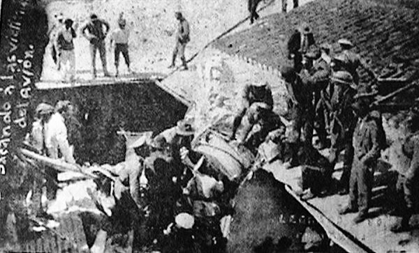 Accidente en que perdieron la vida Jacinto Rodríguez Díaz y José Luis Balcárcel.